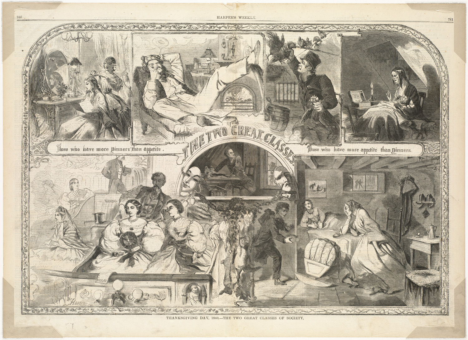 File name: 10_09_000035 Title: Thanksgiving Day, 1860. -- The two great classes of society Creator/Contributor: Homer, Winslow, 1836-1910 (artist) Date issued: 1860-12-01 Physical description: 1 print : wood engraving Genre: Wood engravings; Periodical illustrations Notes: Published in: Harper's Weekly, Volume IV, 1 December 1860, pp. 760-761.; Image captions: The two great classes. Those who have more dinners than appetitle. Those who have more appetite than dinners.; Signed lower left: W Homer. Collection: Winslow Homer Collection Location: Boston Public Library, Print Department Rights: No known restrictions Flickr data on 2011-08-11: Camera: Sinar AG Sinarback 54 FW, Sinar m Tags: Winslow Homer User: Boston Public Library BPL